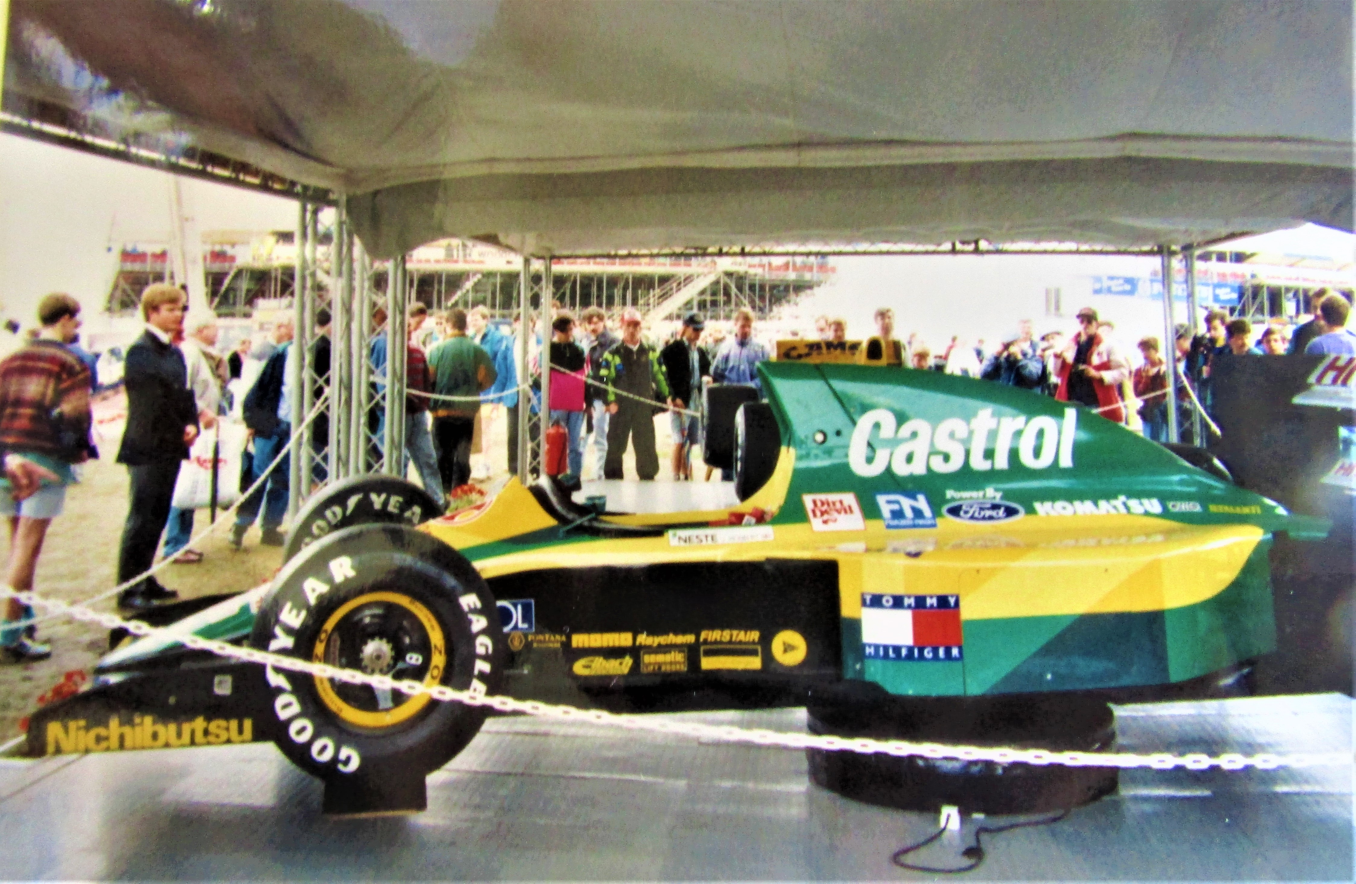 Lotus Ford 107 driven by Johnny Herbert on display in the trade village at the 1992 British Grand Prix, Silverstone, England.